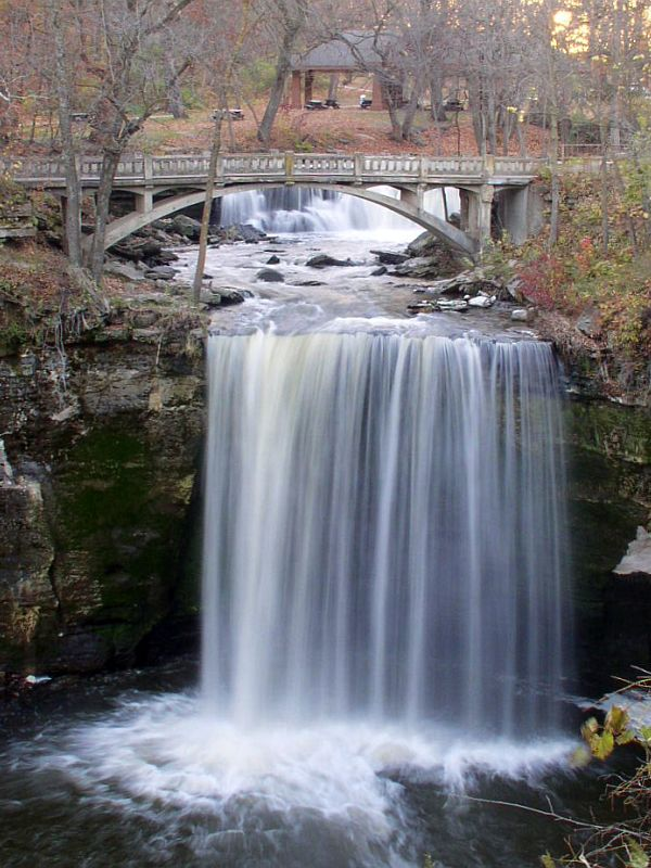 Minneopa Falls, Minneopa State Park, Minnesota, USA. Photo taken at sunset with unusually high water for late fall, several days after a severe thunderstorm.